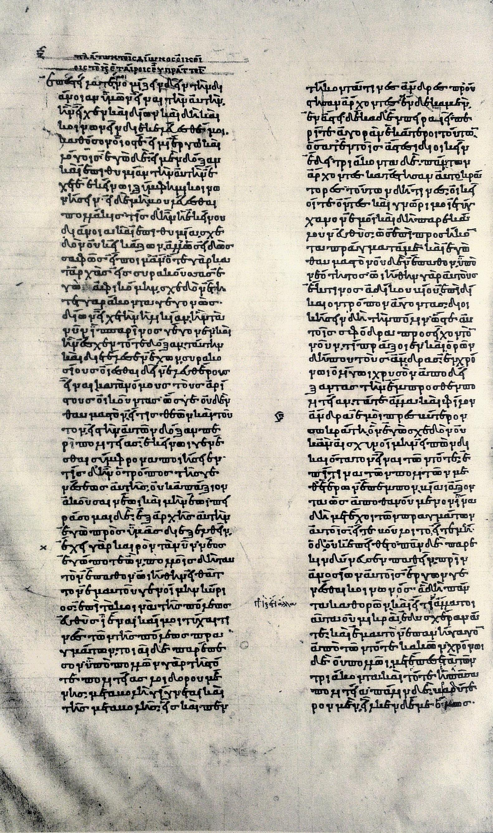 Page of the Codex Parisinus graecus 1807. Seventh Letter.